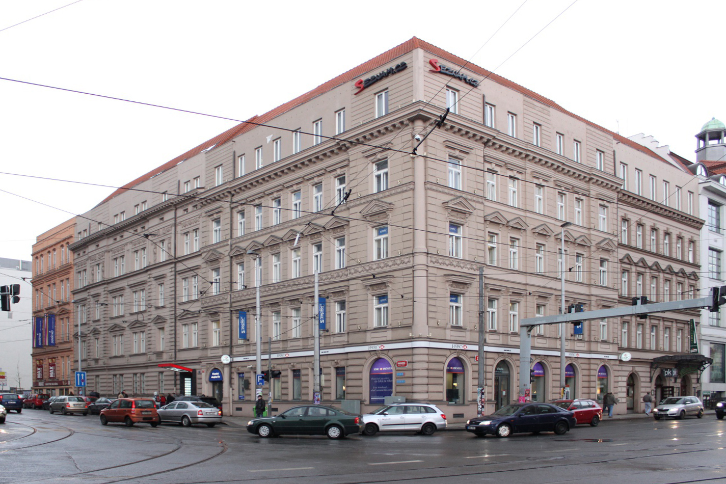 Seznam headquarters in Prague, Radlická 2